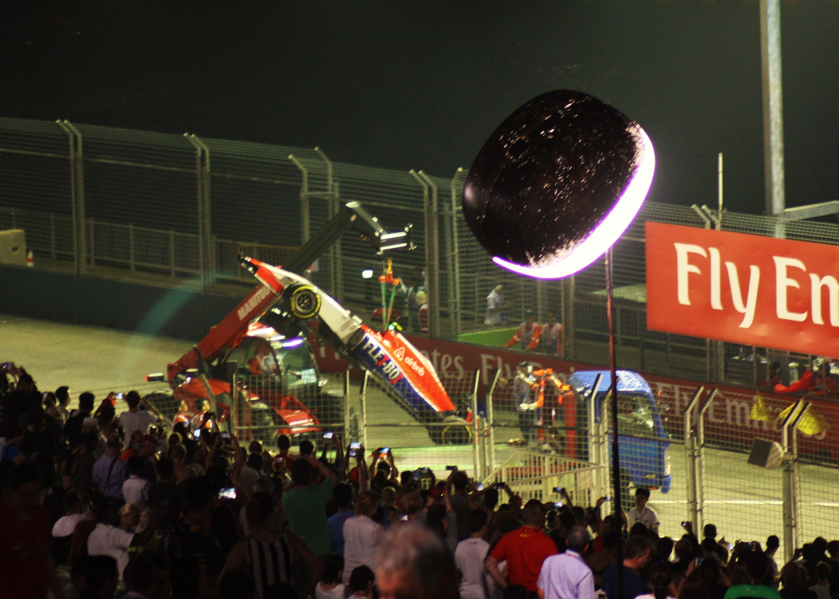 Alexander Rossi's crashed Manor at the 2015 Singapore Grand Prix